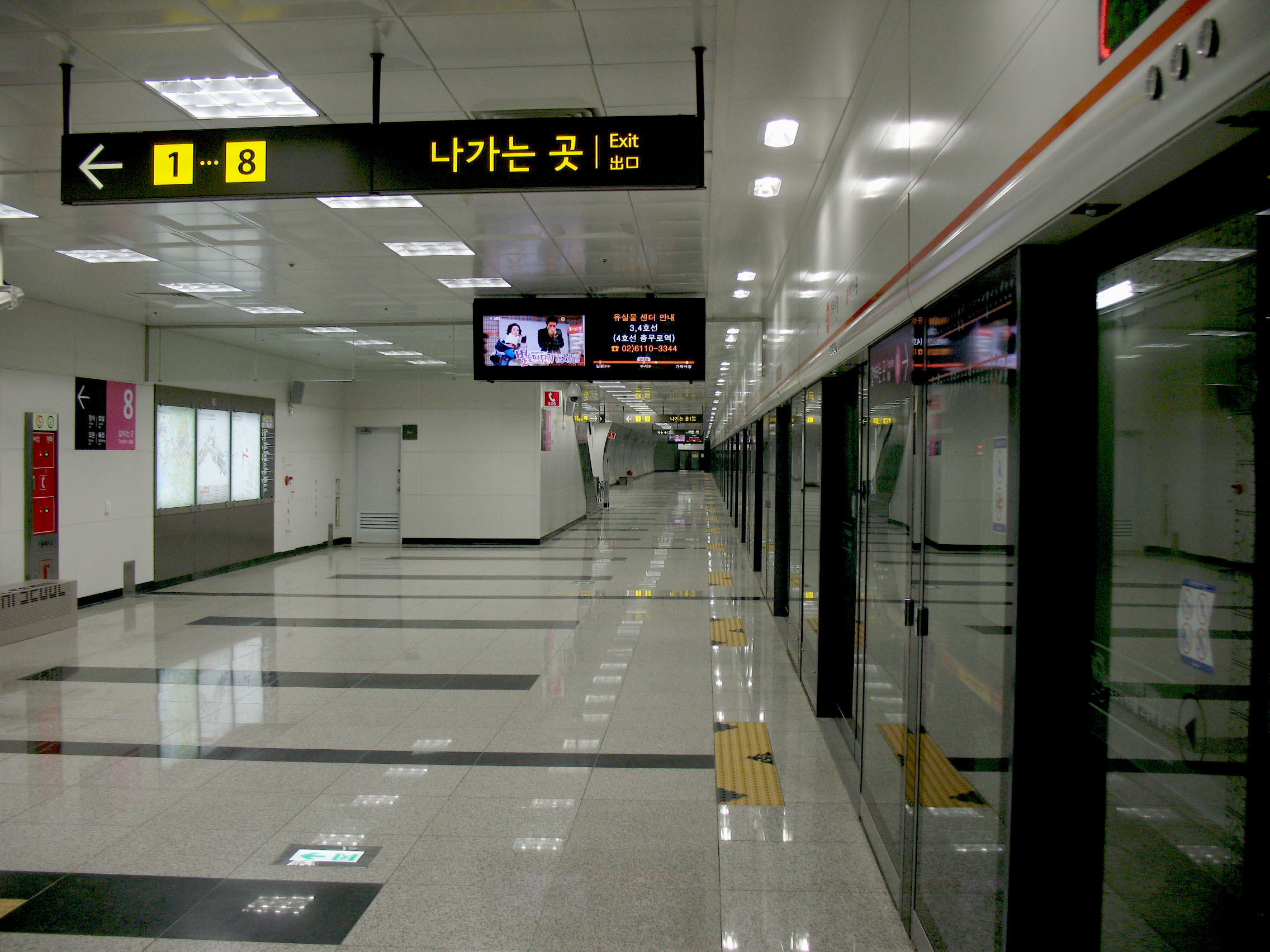 The platform at Garak Market Station.